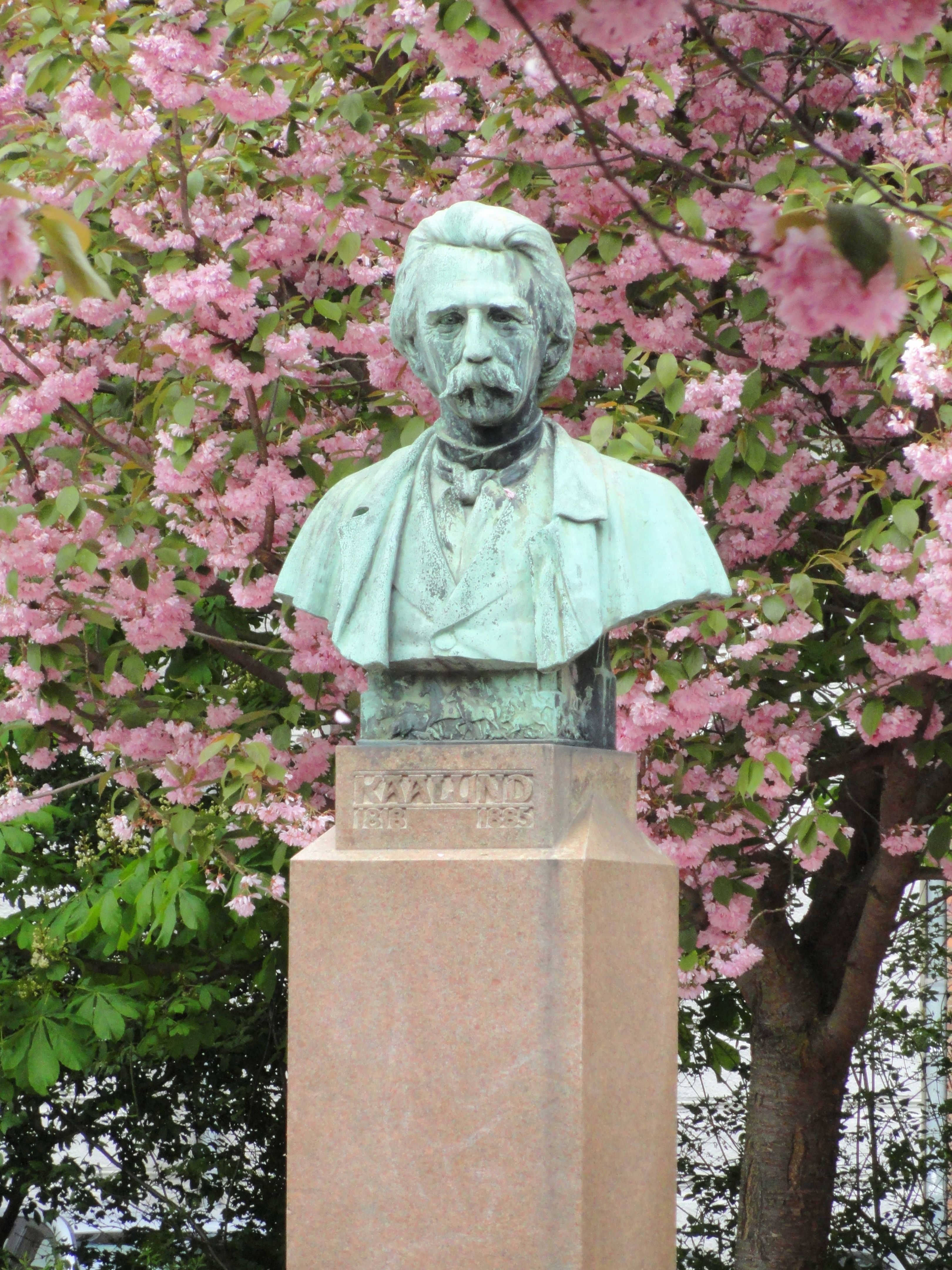 Hans Vilhelm Kaalund by Aksel Hansen, Allégade, 2000 Frederiksberg, Copenhagen, Denmark. This artwork is now in the public domain because the artist died more than 70 years ago.